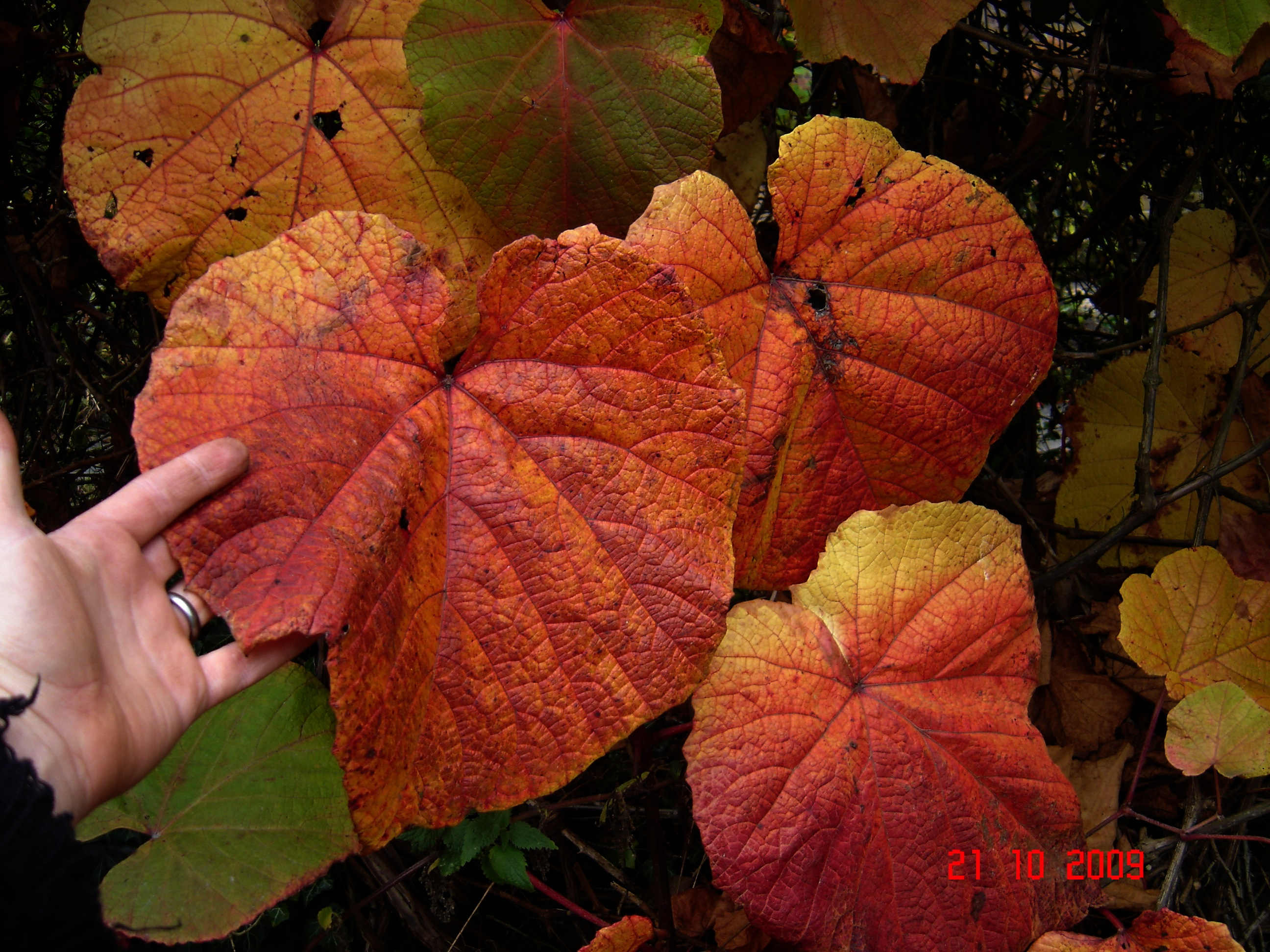 In case there was any doubt about the size of those leaves...